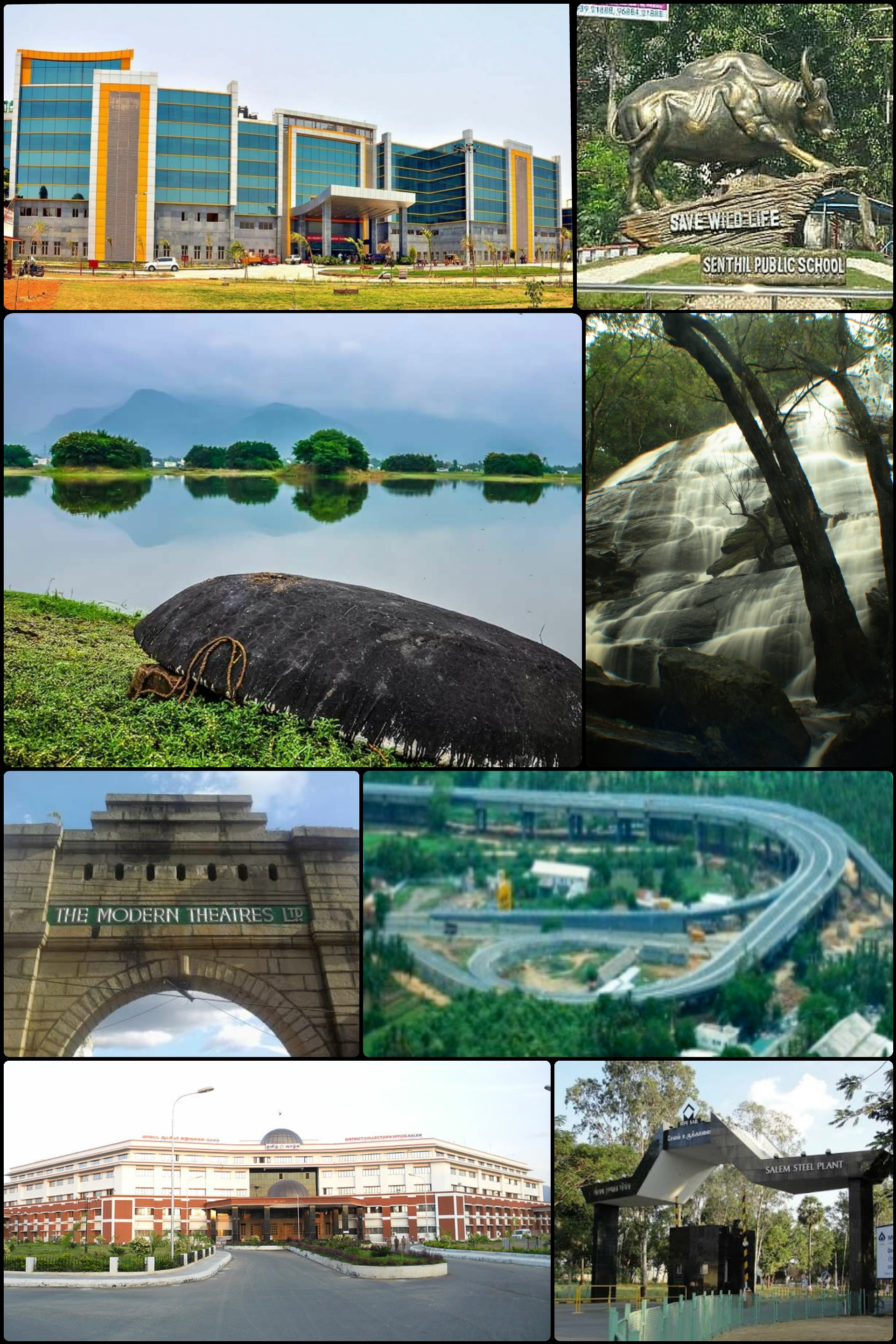 A collage of places from Salem city